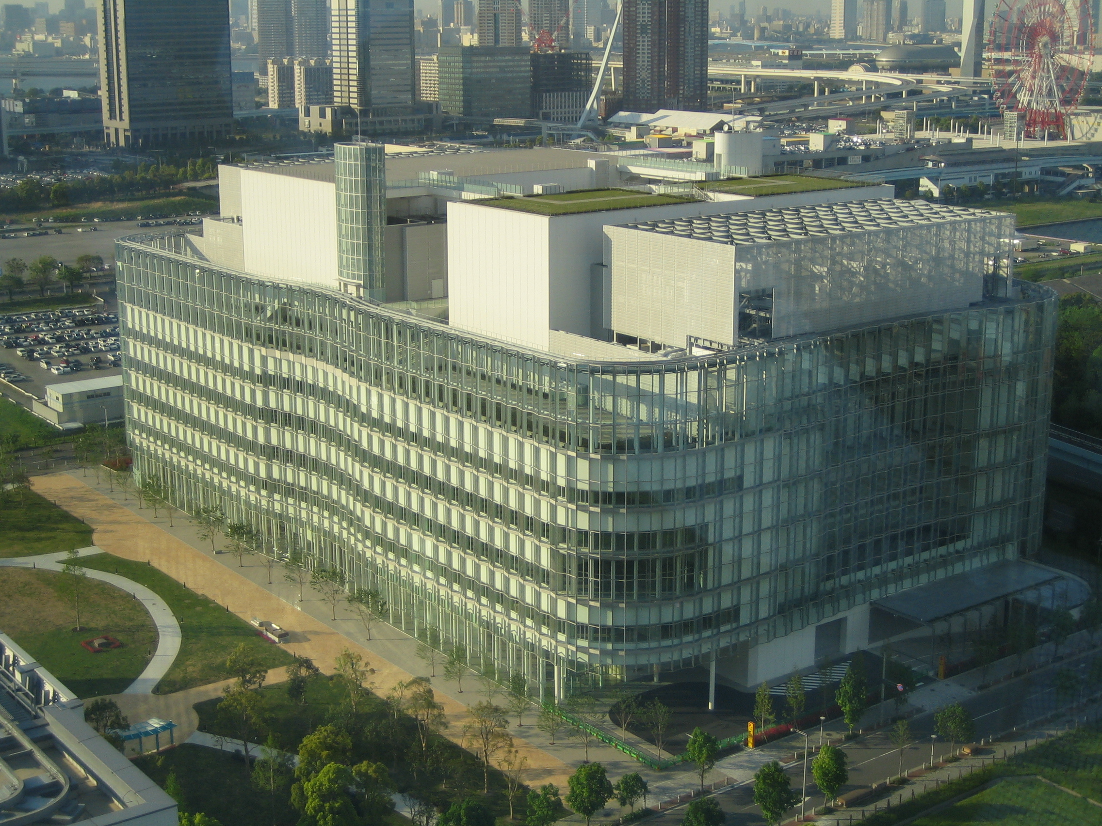 Fuji television Wangan studio overview.